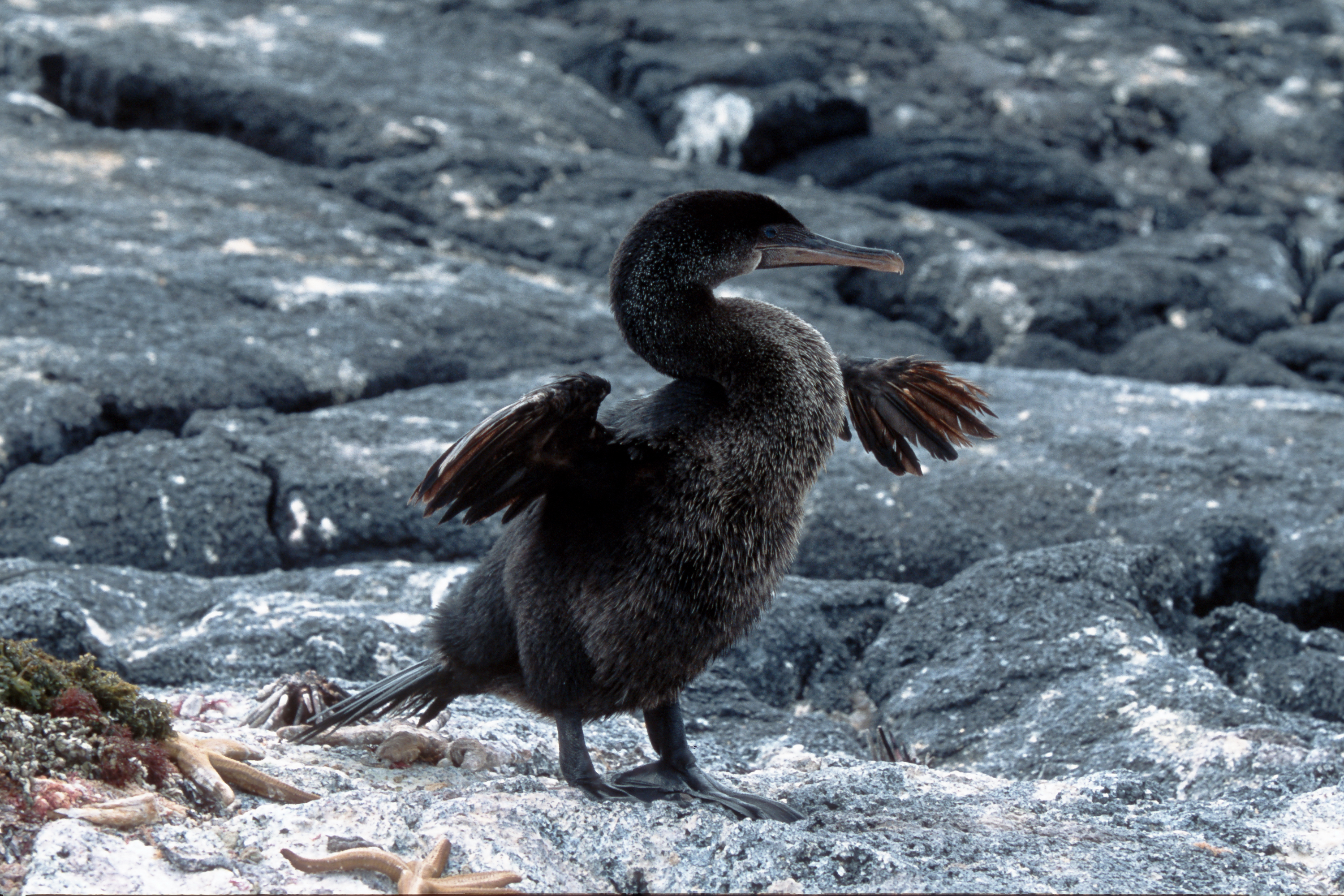 Flightless Cormorant (Phalacrocorax harrisi)on Fernandina Island